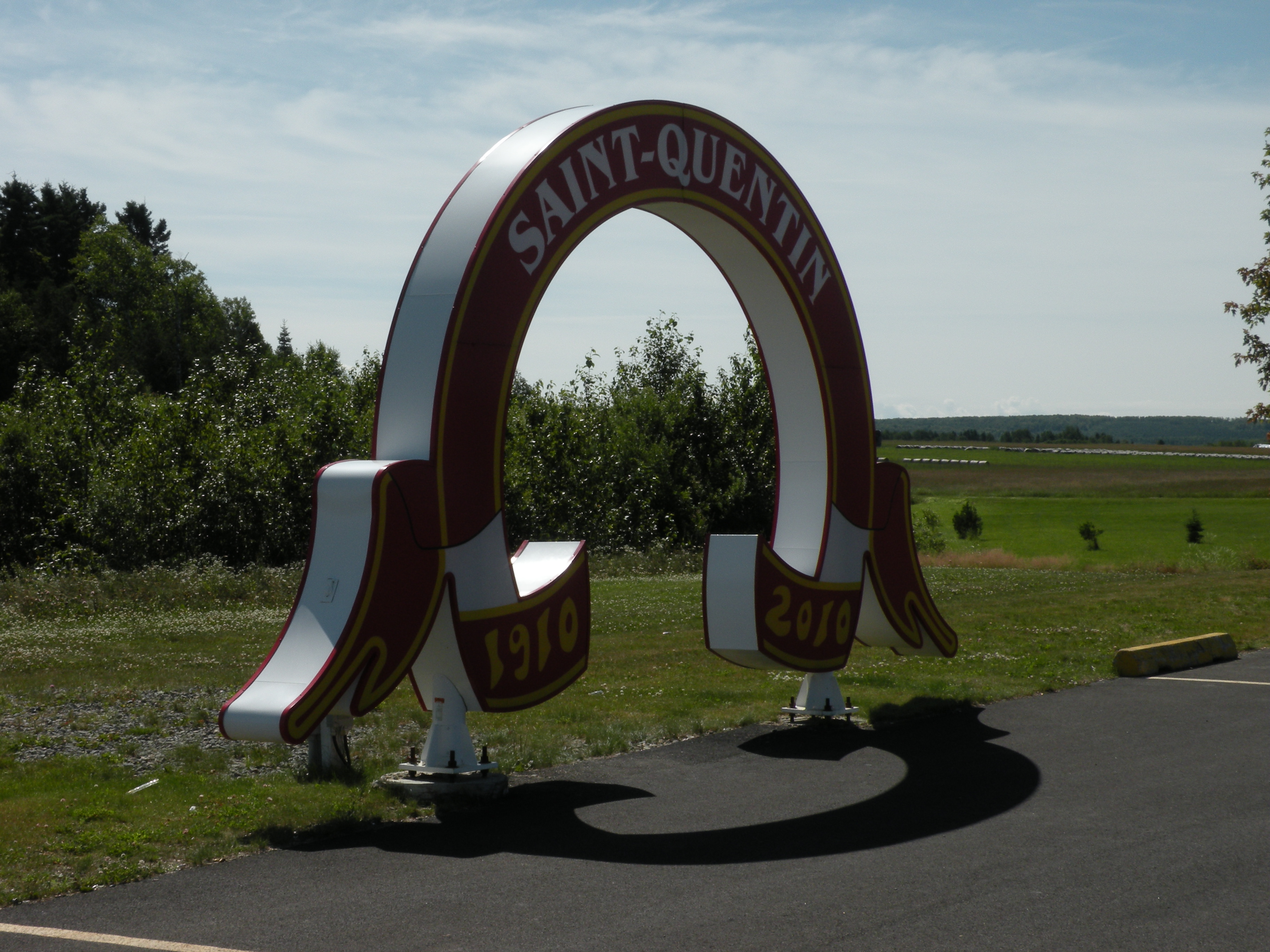 The centenial memorial in Saint-Quentin, New Brunswick, Canada.